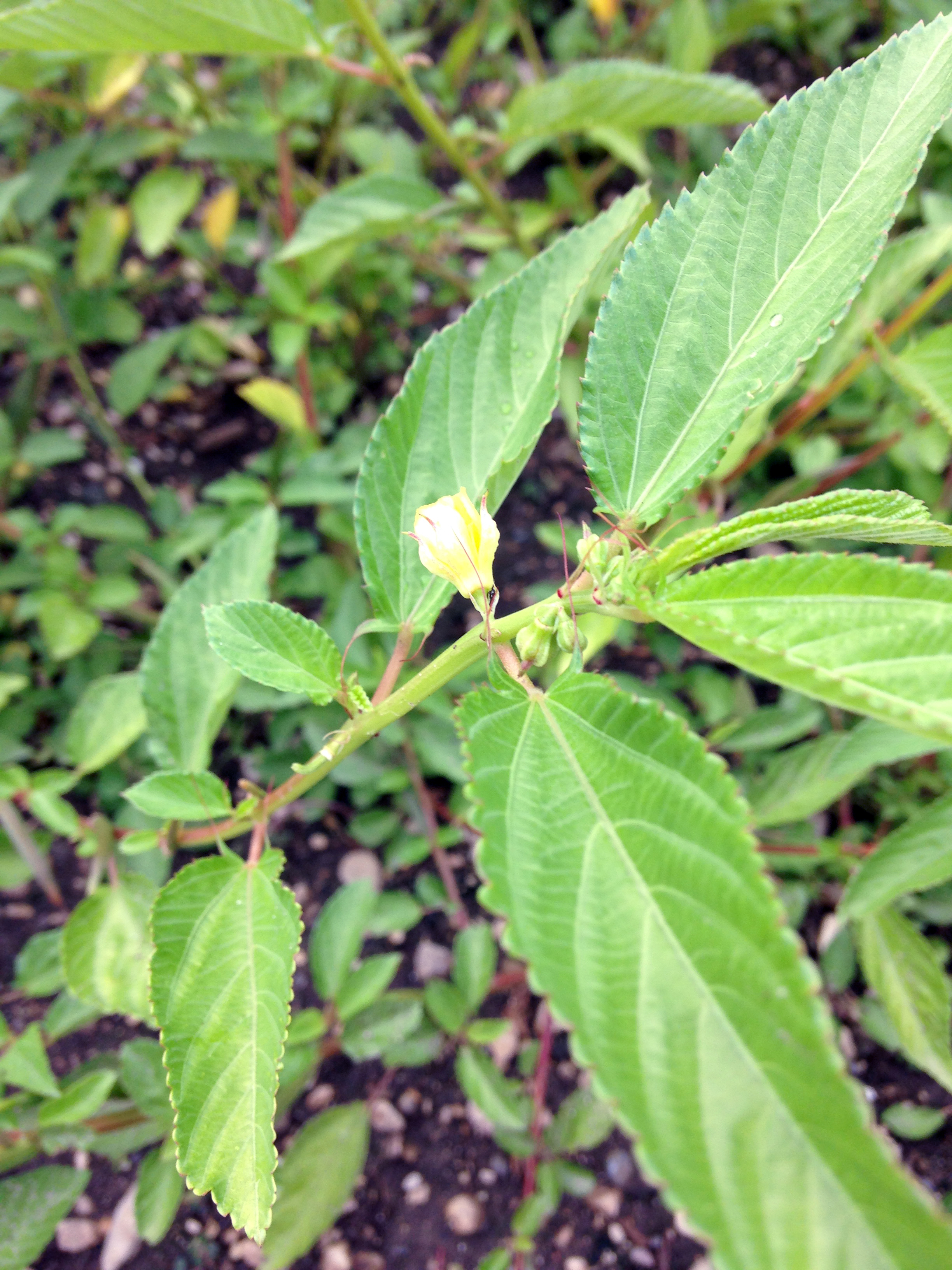 Jute - Corchorus capsularis